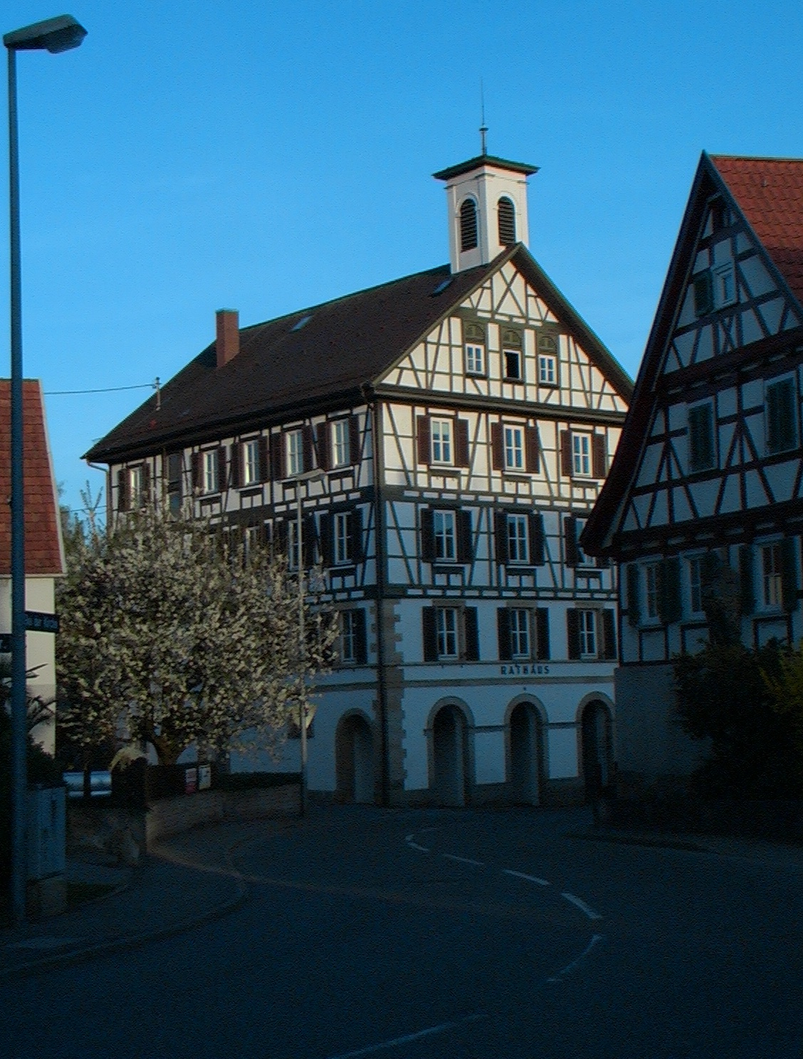 Das Rathaus in Rommelsbach bei Reutlingen wurde 1840 als Schulhaus erbaut. Die Rundbogenfenster des ursprünglich verputzten Fachwerkbaus wurden zum Arkadengang verändert.